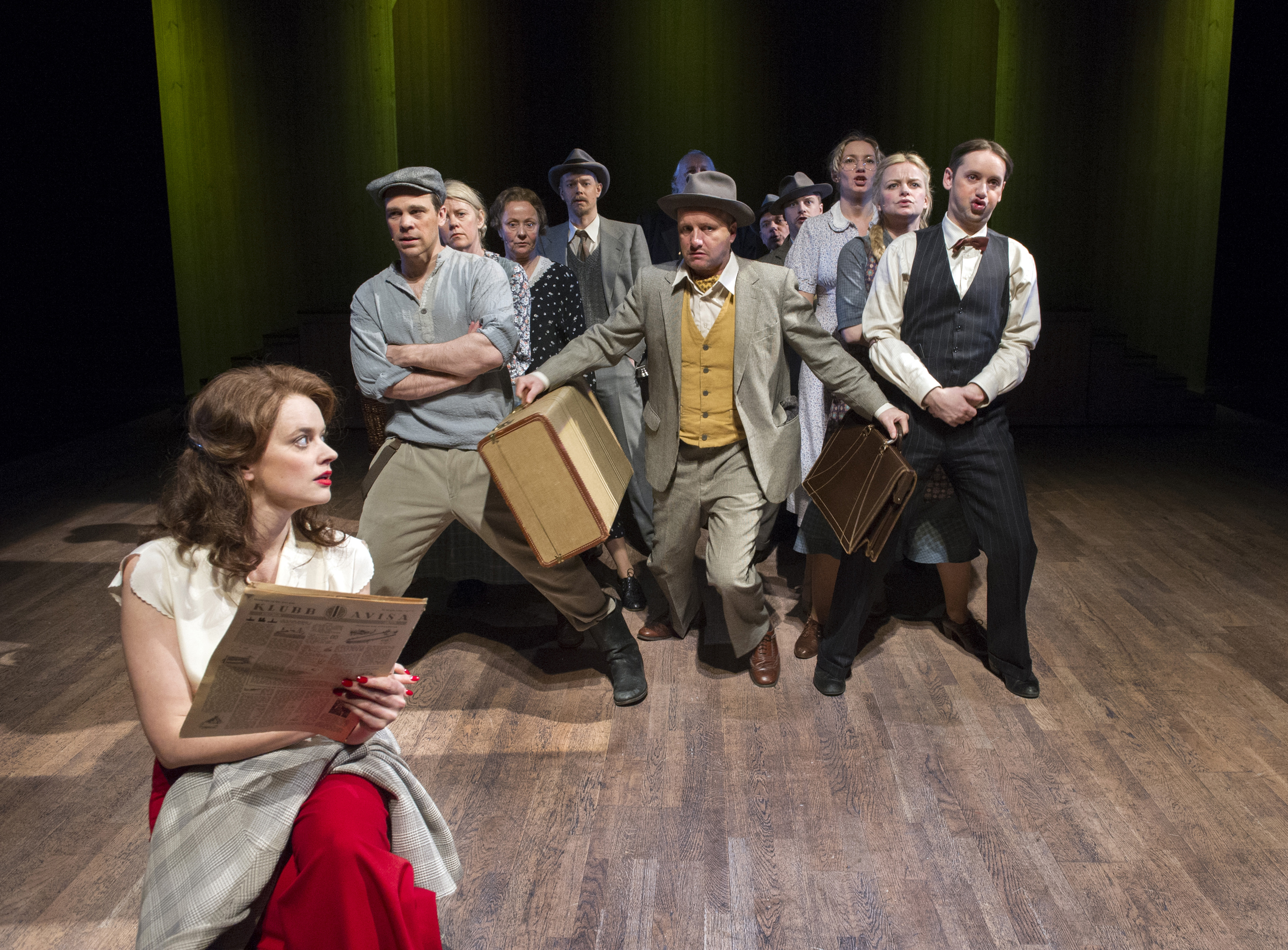 From the 2014 stage version at Det Norske Teatret of Alf Prøysen's musical Trost i taklampa. Charlotte Frogner in the main role as Gunvor. Hallvard Holmen (back center) as the antagonist Lundjordet.